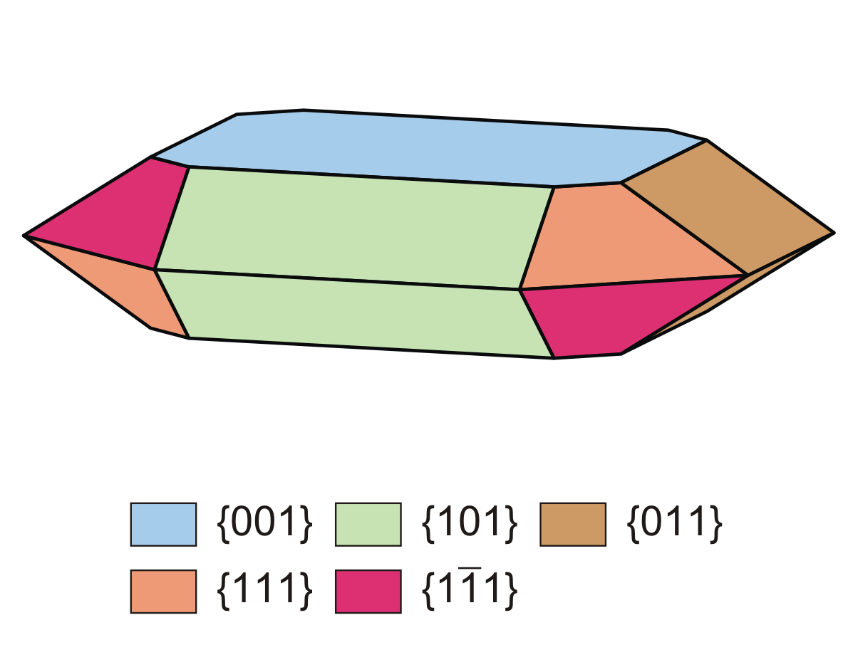 Drawing of an arsendescloizite crystal; reference: P. Keller & Pete Dunn (1982), The Mineralogical Record Vol. 13, page 156